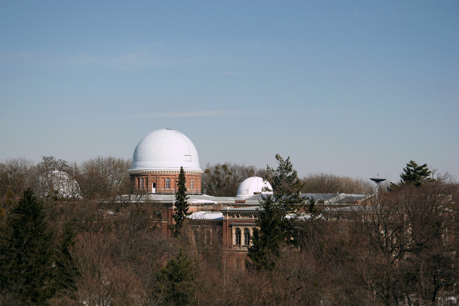 Universitätssternwarte Wien/Observatory of the University of Vienna